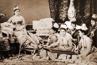 Jeshme Affet Hanemefendi and her female orchestra, circa 1872.